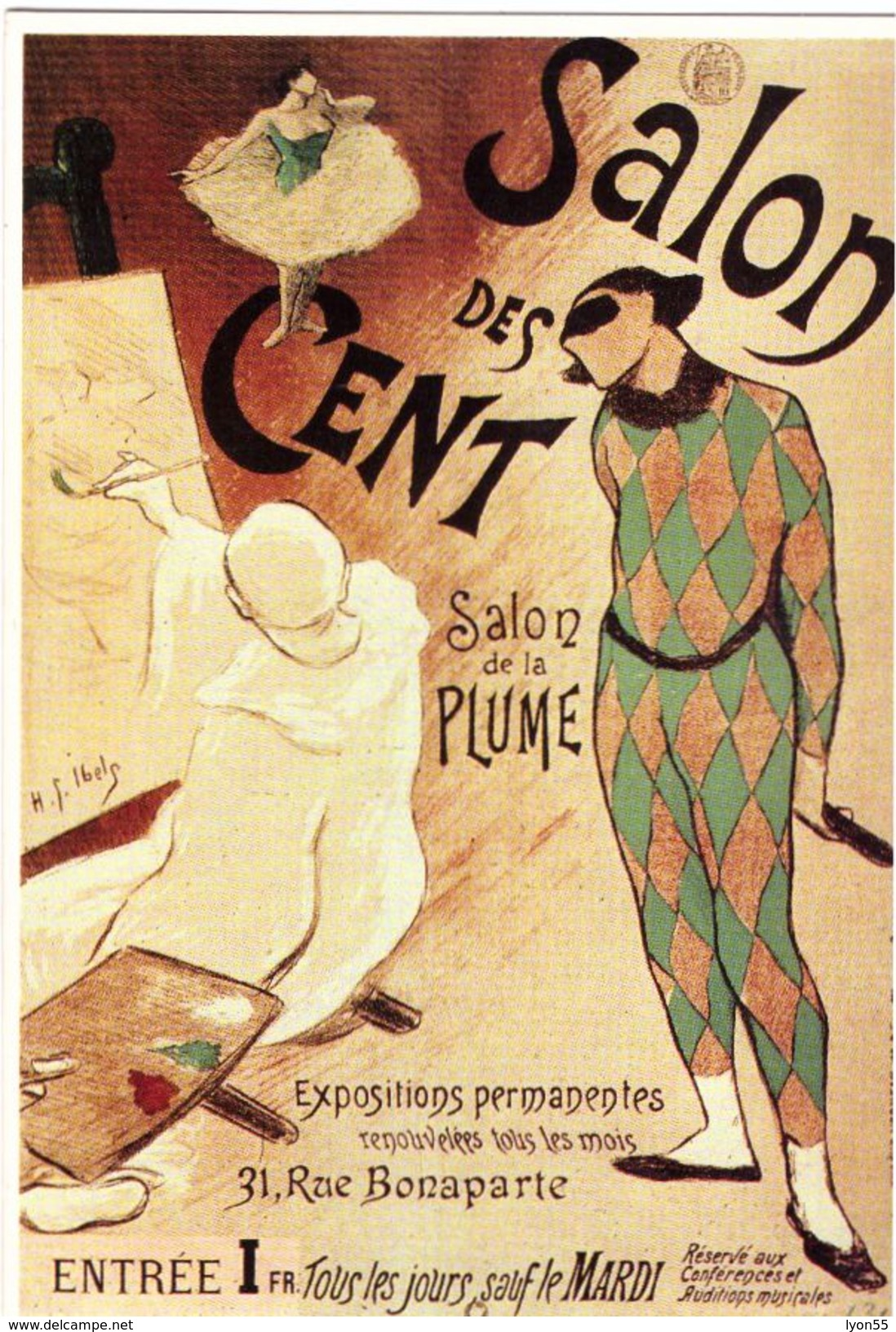 Henri-Gabriel Ibels poster for first Salon des Cent exhibition 1893. The first exhibition actually opened on 1 February 1894.